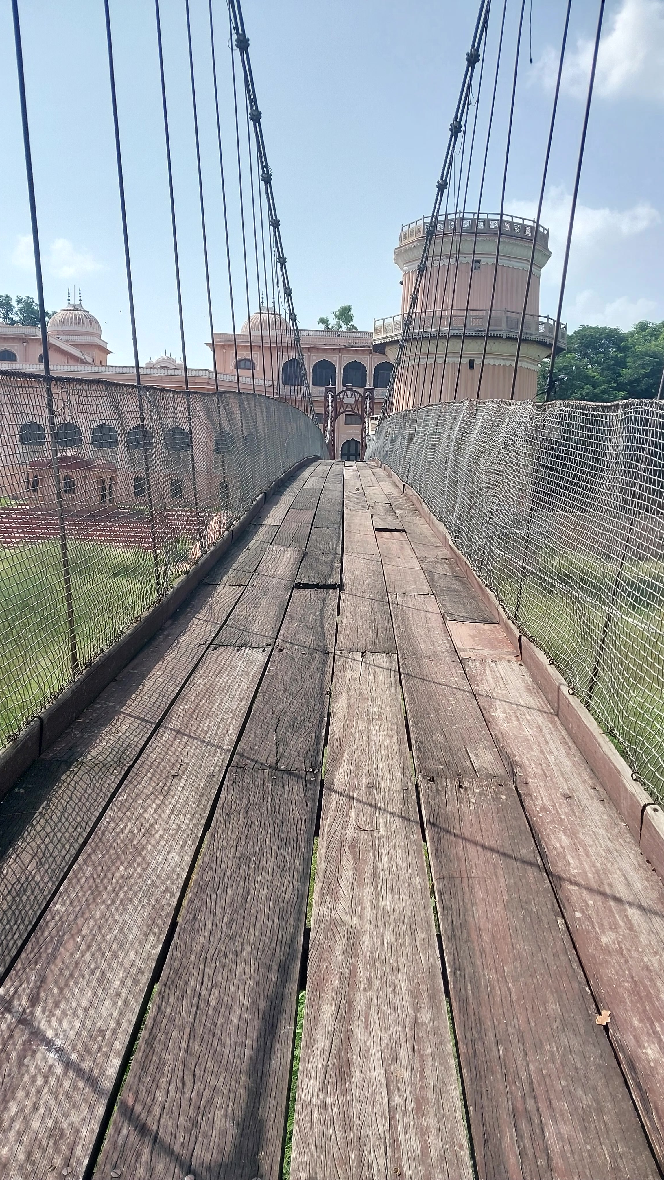 The suspension bridge at Sheesh Mahal, Patiala (Punjab) (India) is a bridge over the water tank at sheesh mahal constructed in 1892. It is now a Punjab State protected monument no. S-PB-35-d. One of the towers at Sheesh Mahal (ASI Identifier no.S-PB-35-a) is also clearly visible near the centre.